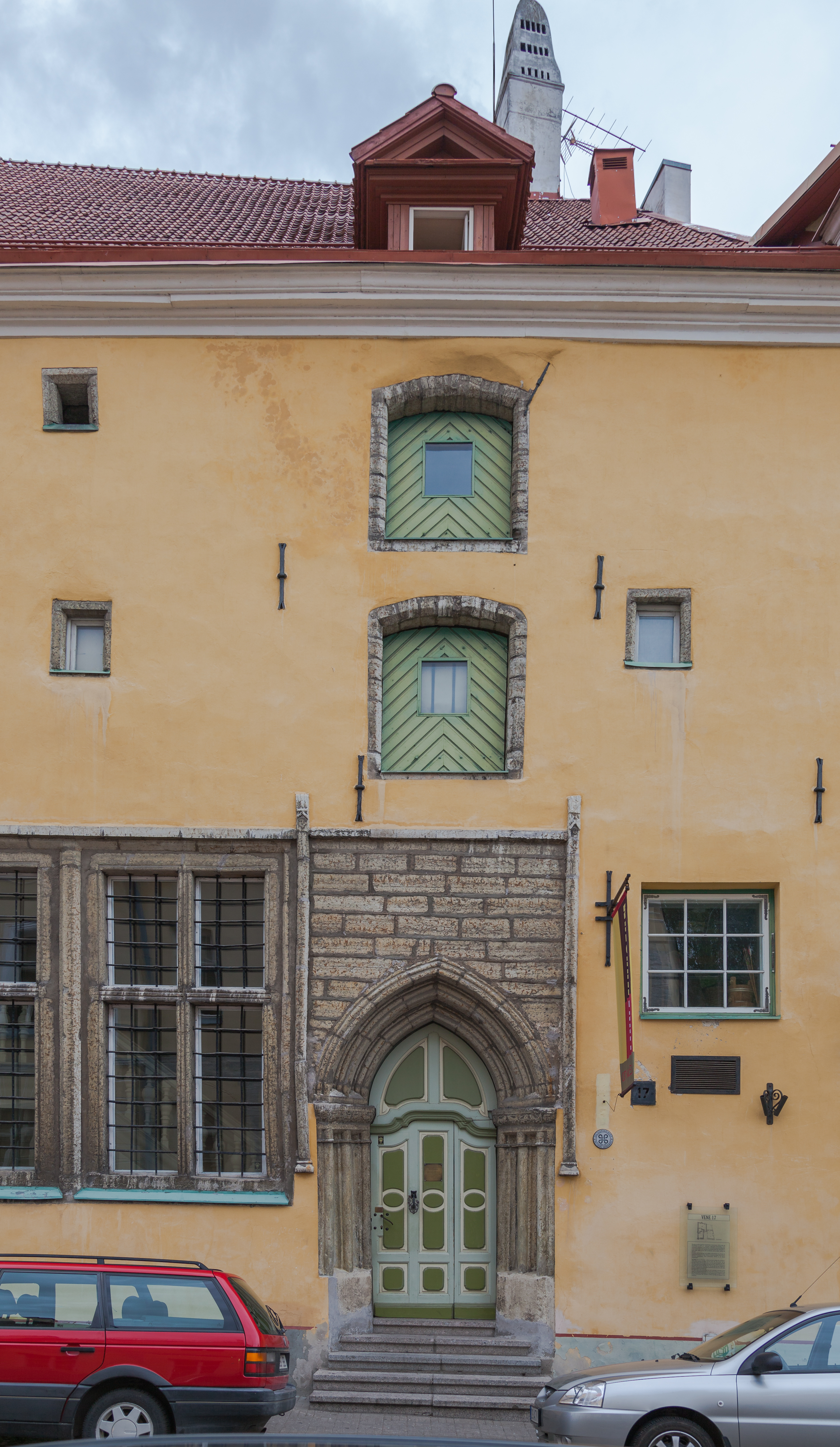 City Museum, Tallinn, Estonia